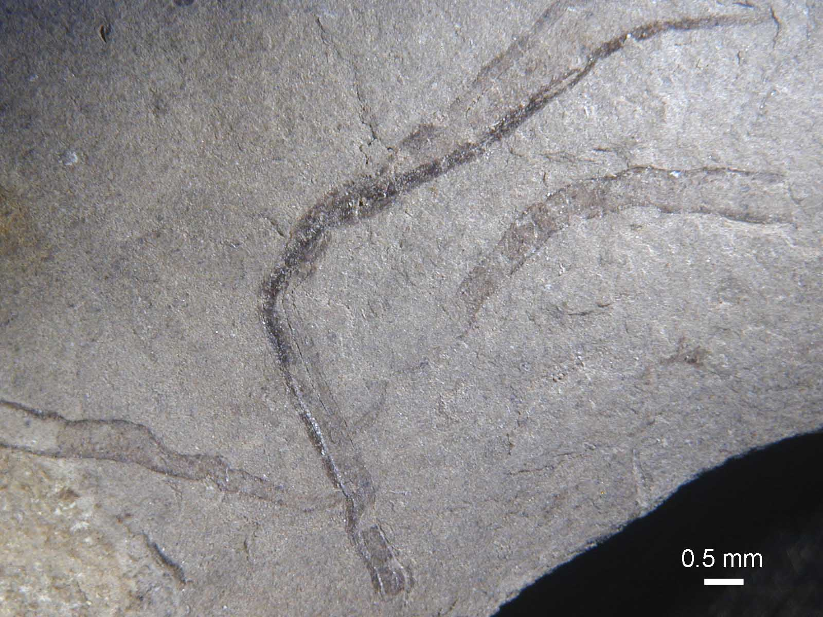 Torellella toolsensis (POPOV & KHAZANOVICH, 1989), Toolse River, North East Estonia, Maardu Formation, Upper Cambrian